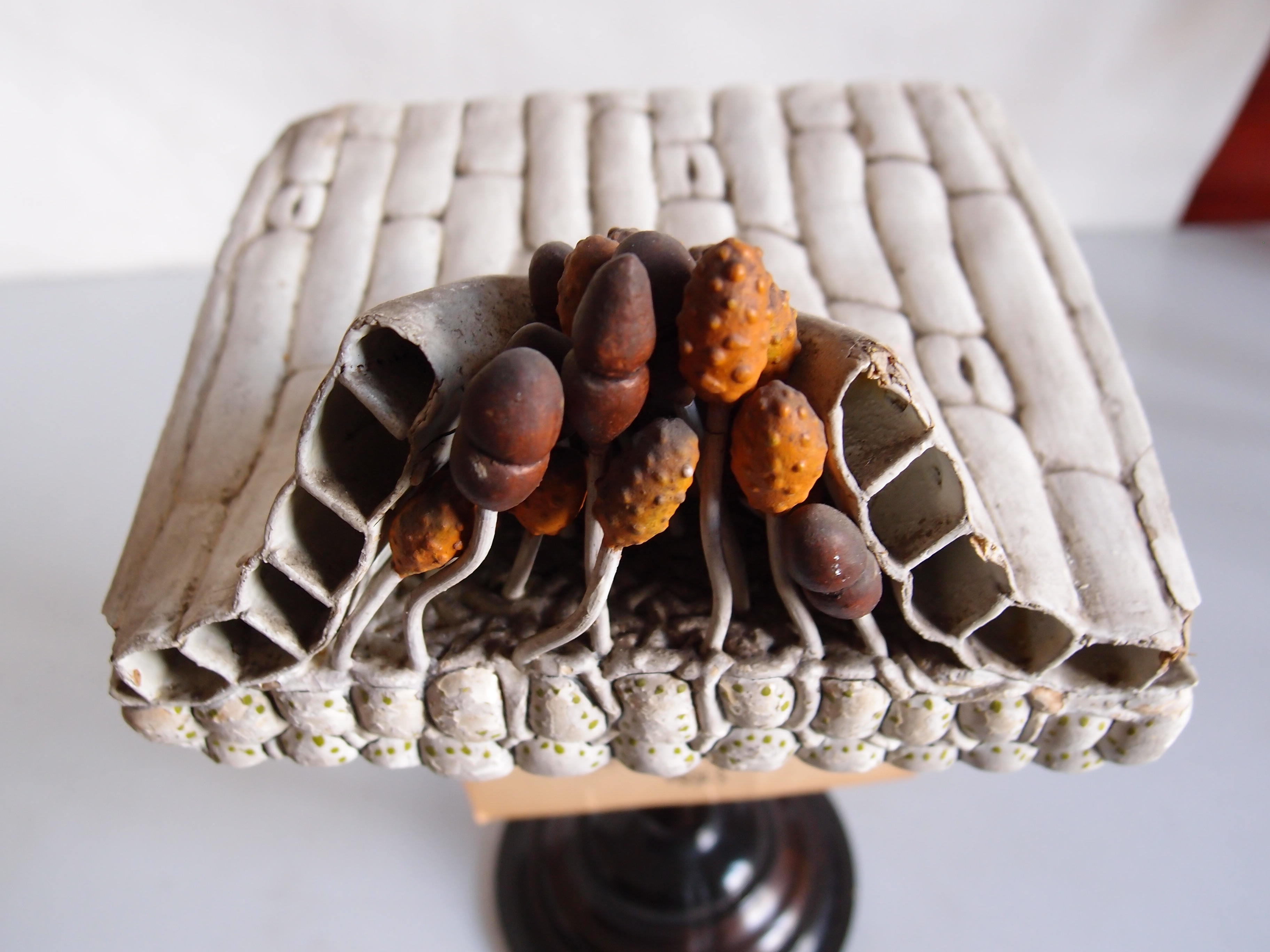 Model from the collection of the Botanical Museum in Greifswald, Germany. . see also for more information on the models